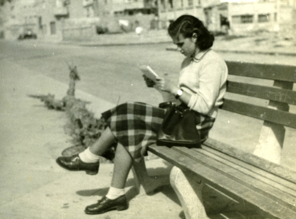 A girl reading on a city bench at the beach in Tel Aviv.